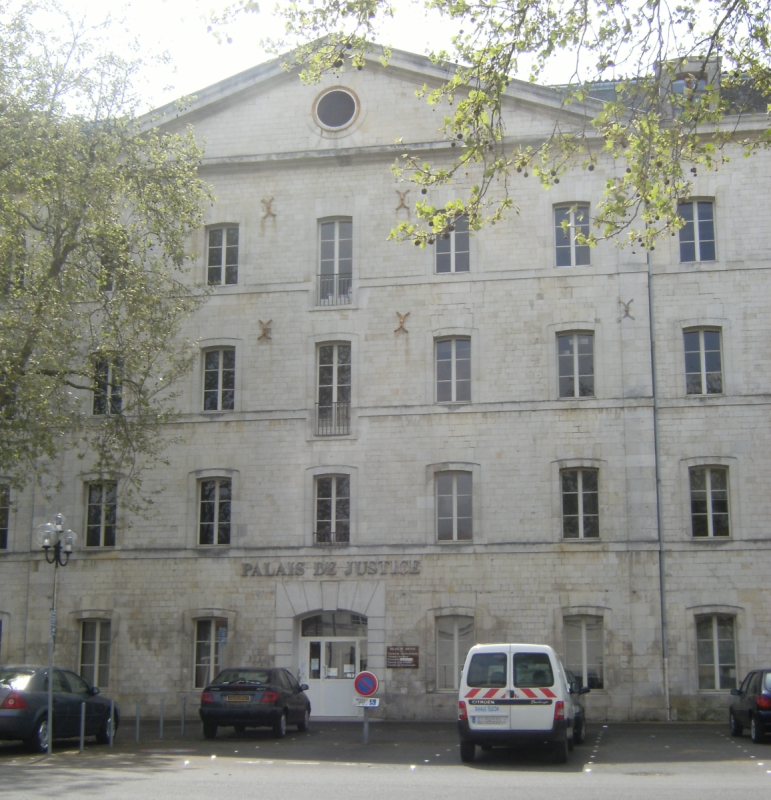 Courthouse Rochefort